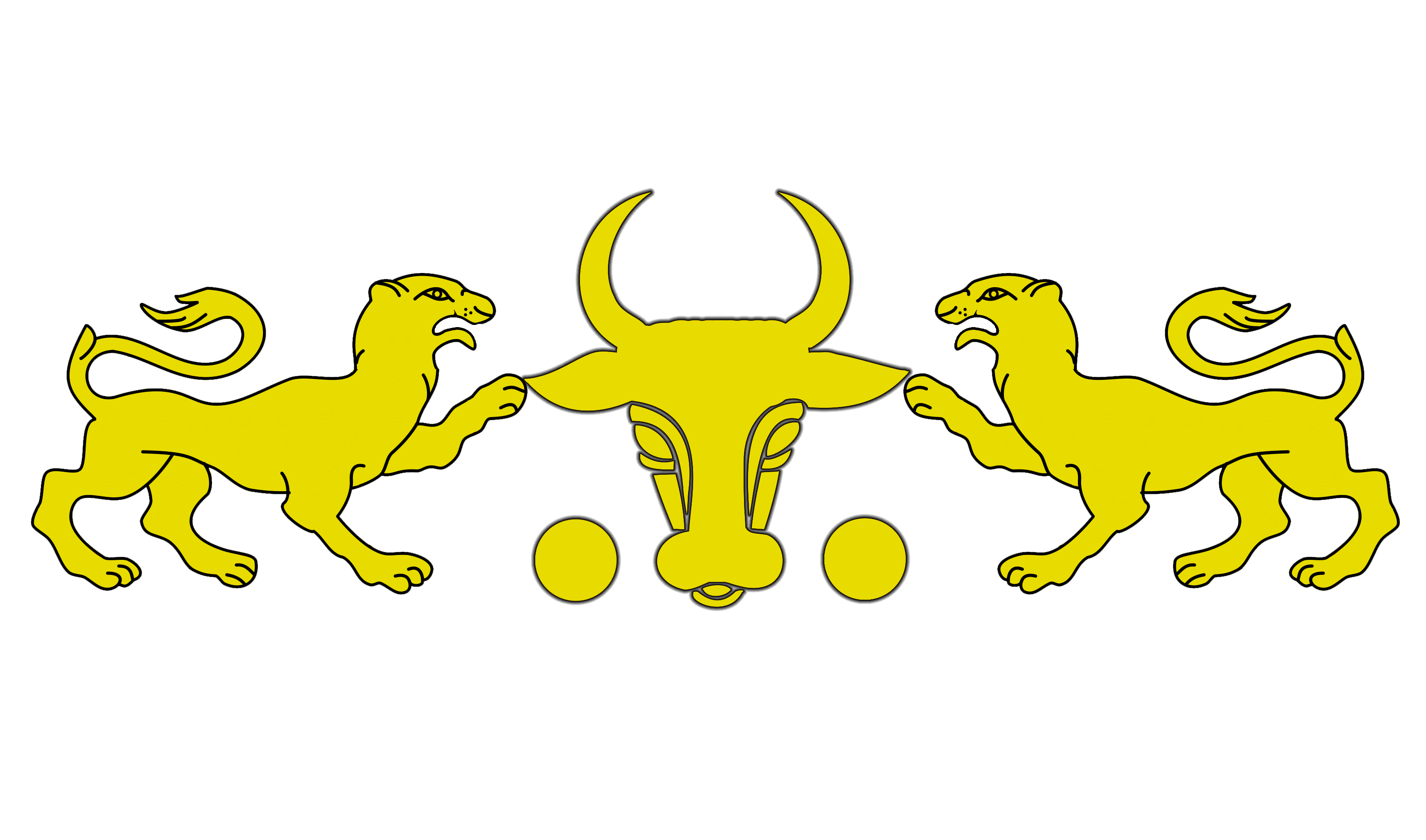 Coat of Arms of Shirvanshahs.